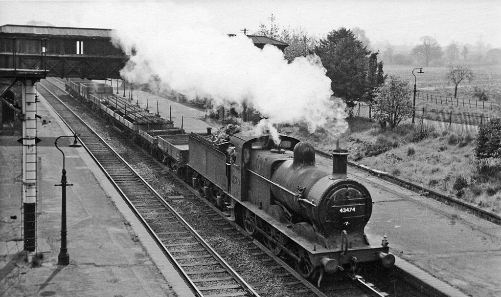 Ampthill Station remains, with a Down goods passing. View southward, towards London; ex-Midland London St Pancras - Leicester and the North main line. Ampthill station had been closed a year earlier (4/5/59). There were four tracks here and ex-Midland 3F 0-6-0 is running on the Down Slow line